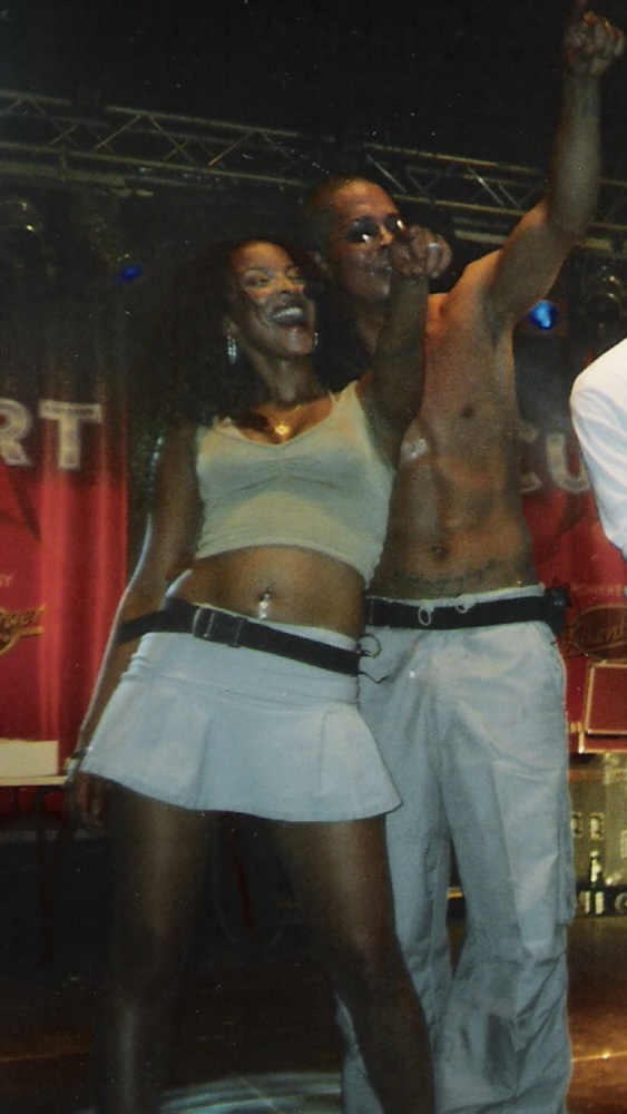 Hila and Sha live in Hannover (2003)